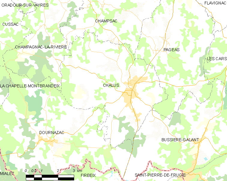 Map of French municipality Châlus